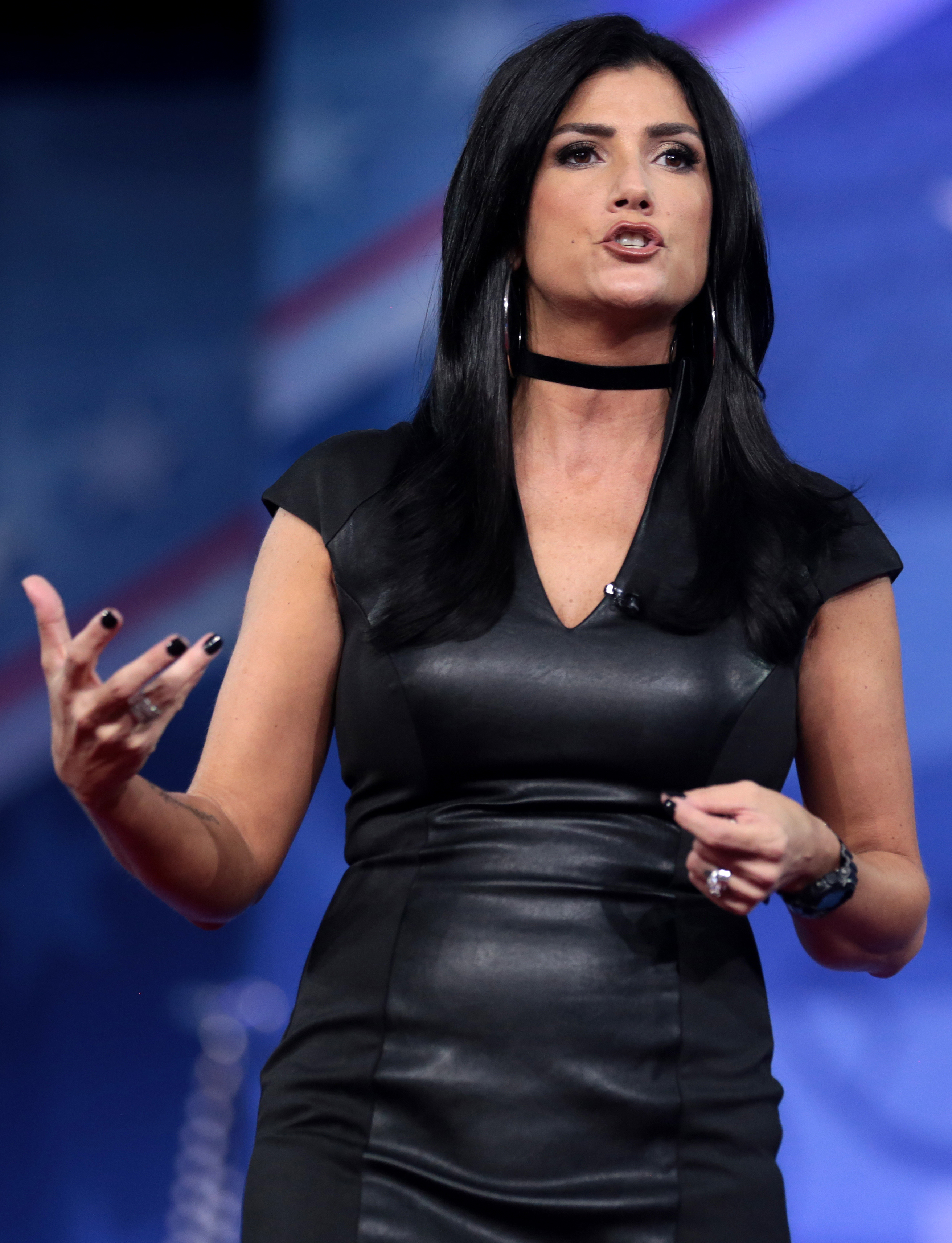 Dana Loesch speaking at the 2017 CPAC in National Harbor, Maryland.